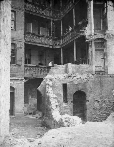 Photograph of the photographer Valentine Mallet (native from Geneva, Switzerland, 1862-1949) representing the rue du Rhône in Geneva, during its demolition, about 1905